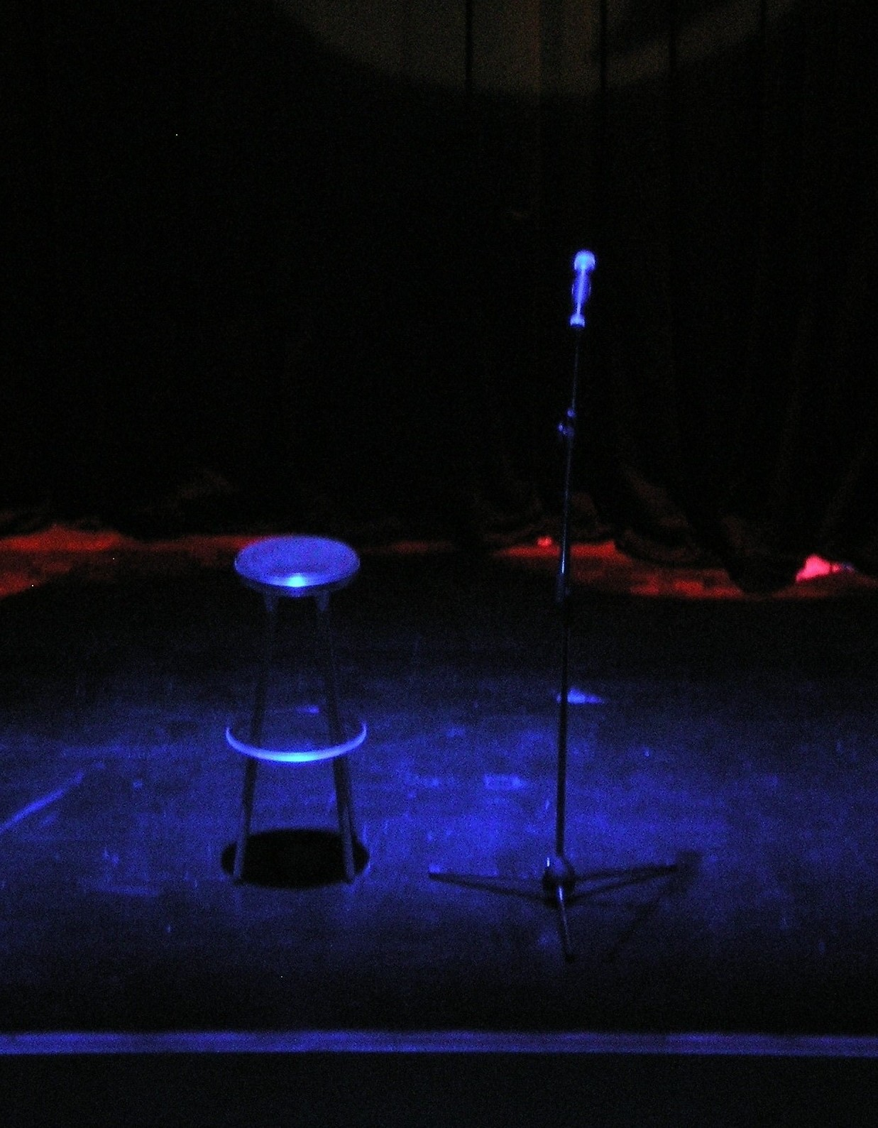 Empty stage for a stand-up comedy show.